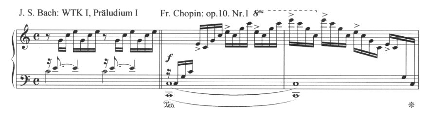 Comparison of J.S.Bach WTKI, Präludium I and Fr. Chopin op.10, Nr.1